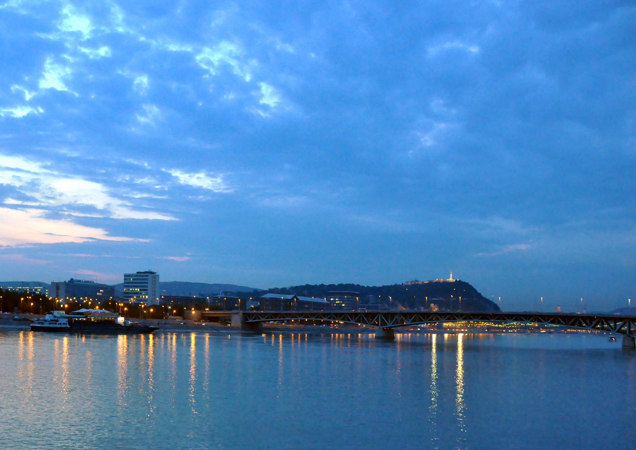 Budapest (Hungary): the Danube and the Petőfi bridge at sundown